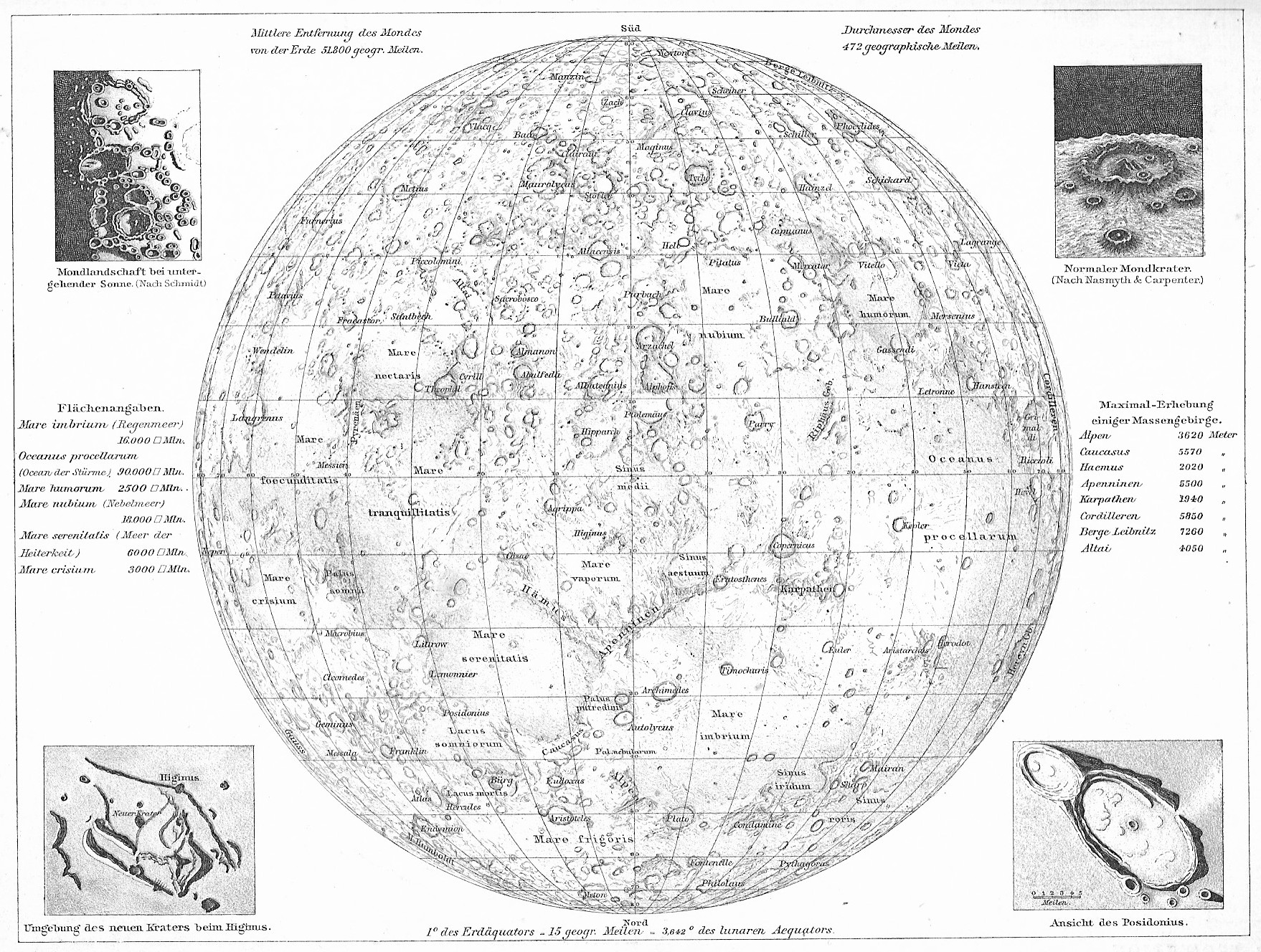 Map of the Moon, Andrees Allgemeiner Handatlas, 1st Edition, Leipzig (Germany) 1881, Page 4